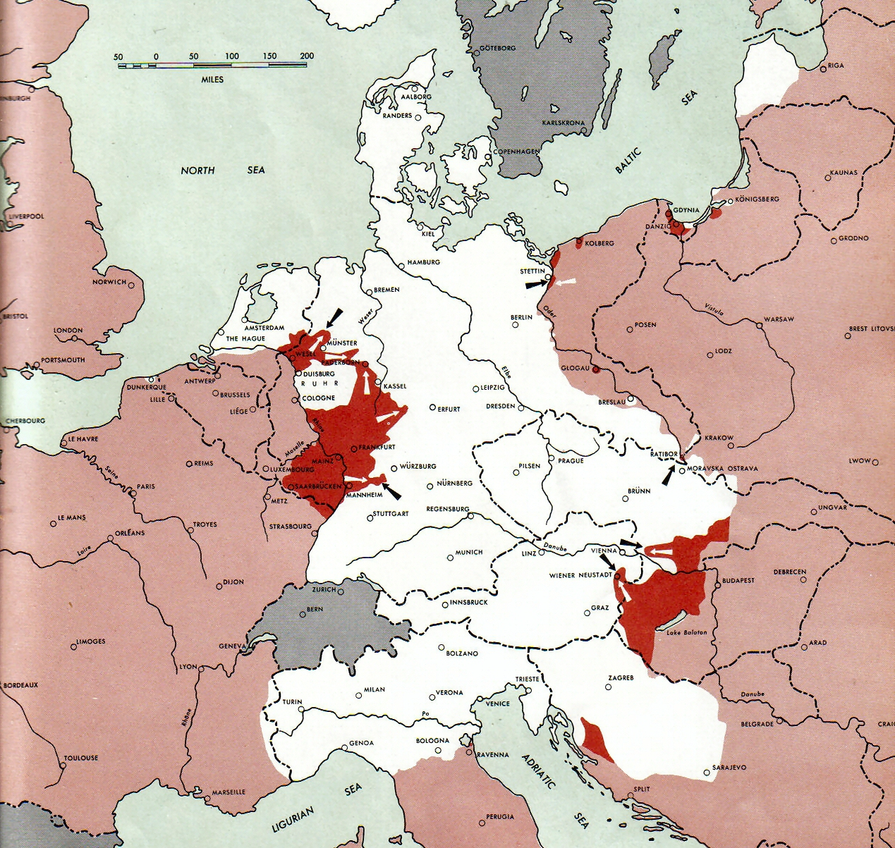 Map of the front against Germany: This map is taken from the source "Atlas of the World Battle Fronts in Semimonthly Phases to August 15th 1945: Supplement to The Biennial report of The Chief of Staff of the United States Army July 1, 1943 to June 30 1945 To the Secretary of War". (See Cover, Forward and Map details)